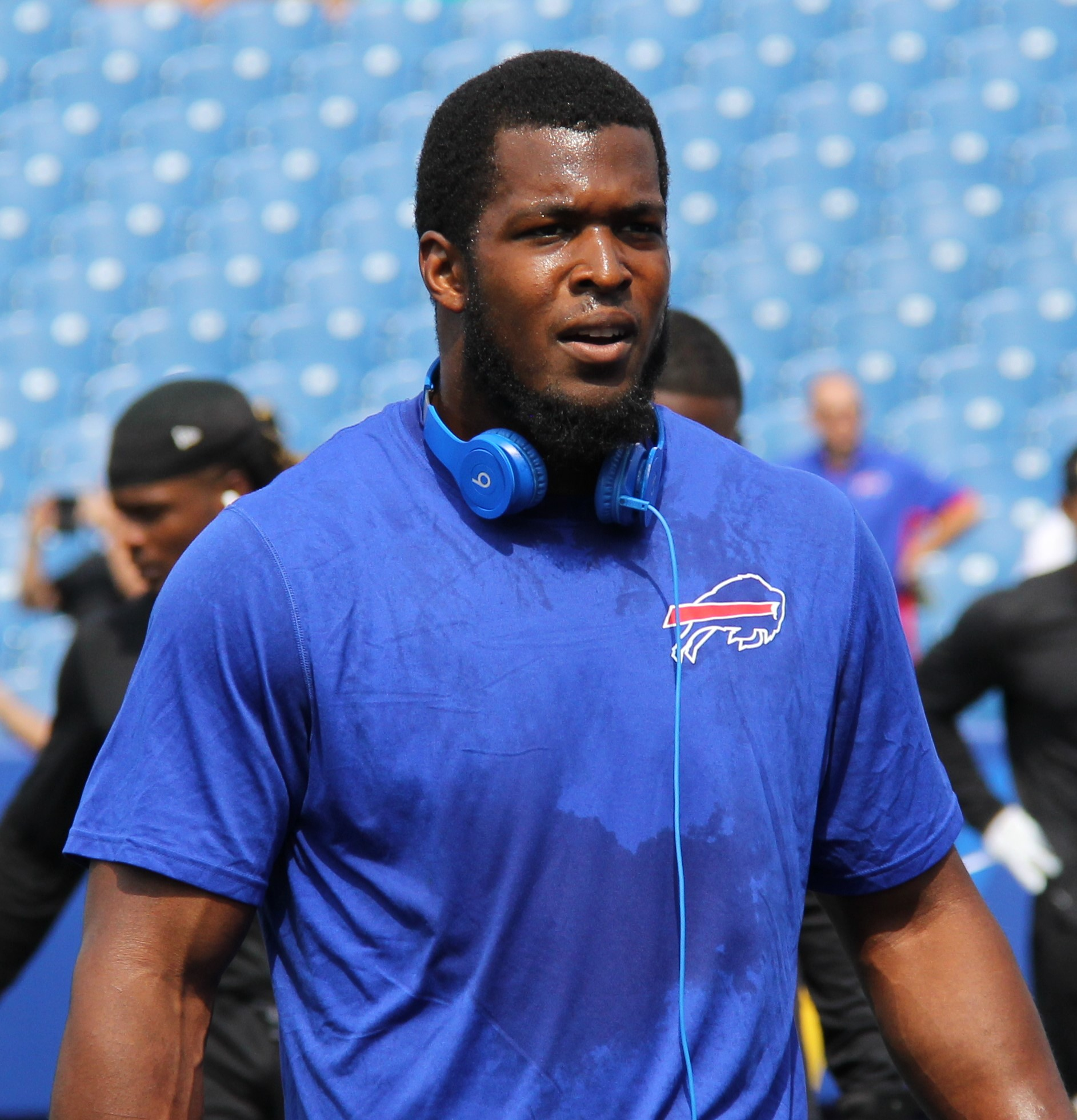 Pre-game vs. Steelers